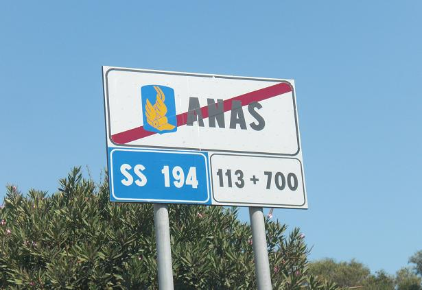 Road sign for the end of the SS.194 in Sicily. Photo taken at the km 113,7 near Pozzallo.